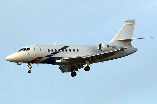 Volkswagen Air Service Falcon 2000 VP-CGA